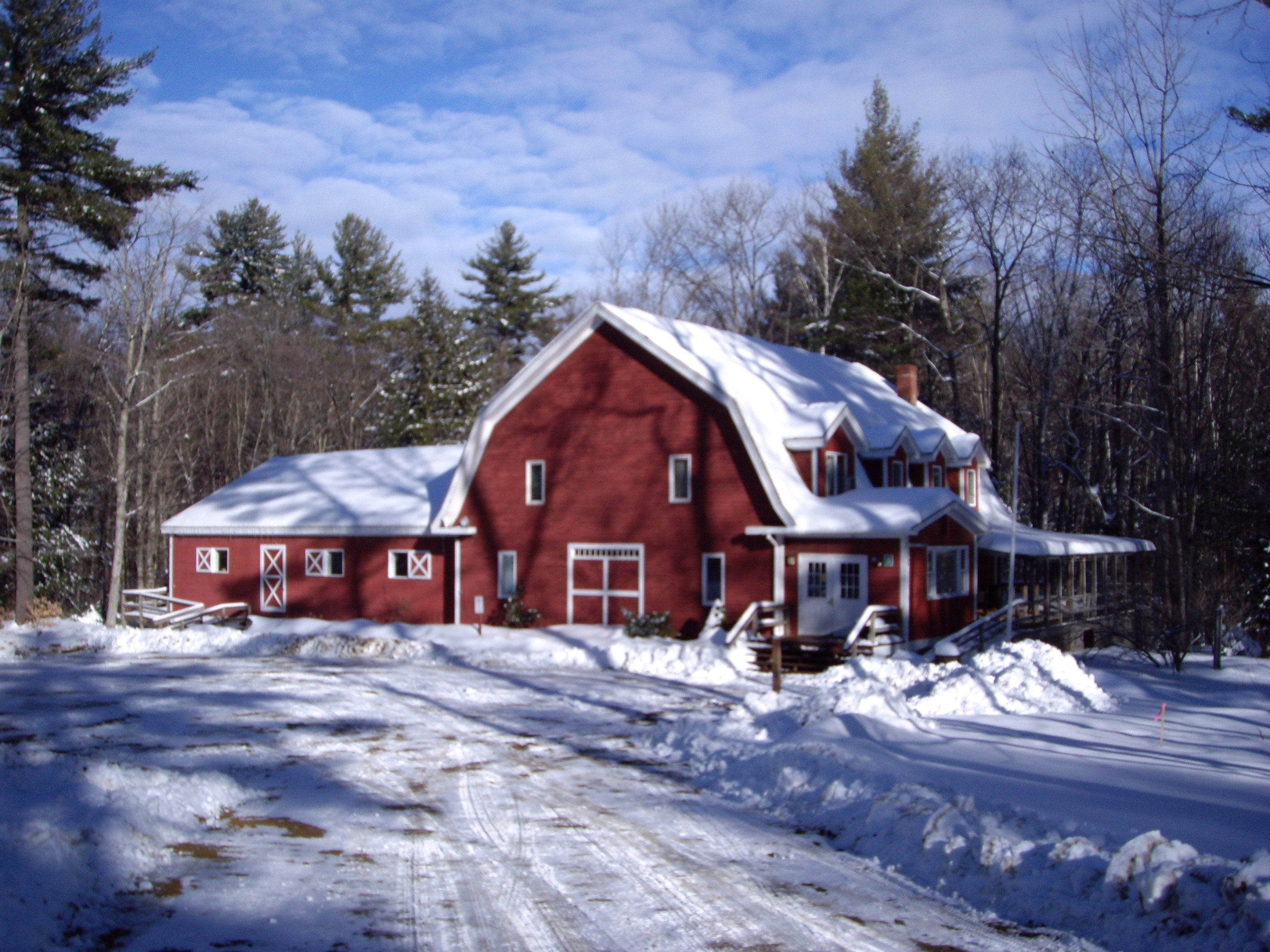 Former Annalee Dolls Gift Shop in Meredith New Hampshire. Future Main Theater for the Winnipesaukee Playhouse.